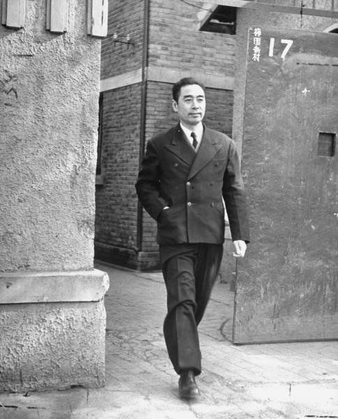 Zhou Enlai walking out through the gate of 17-MeiyuanXincun